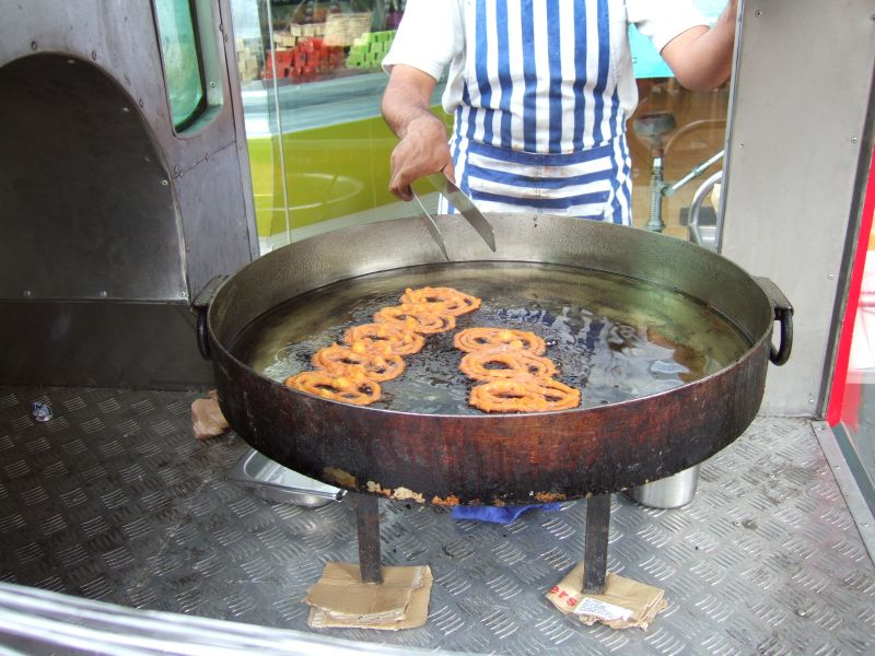 Deep-frying jalebi (jelebi), a South Asian sweet.